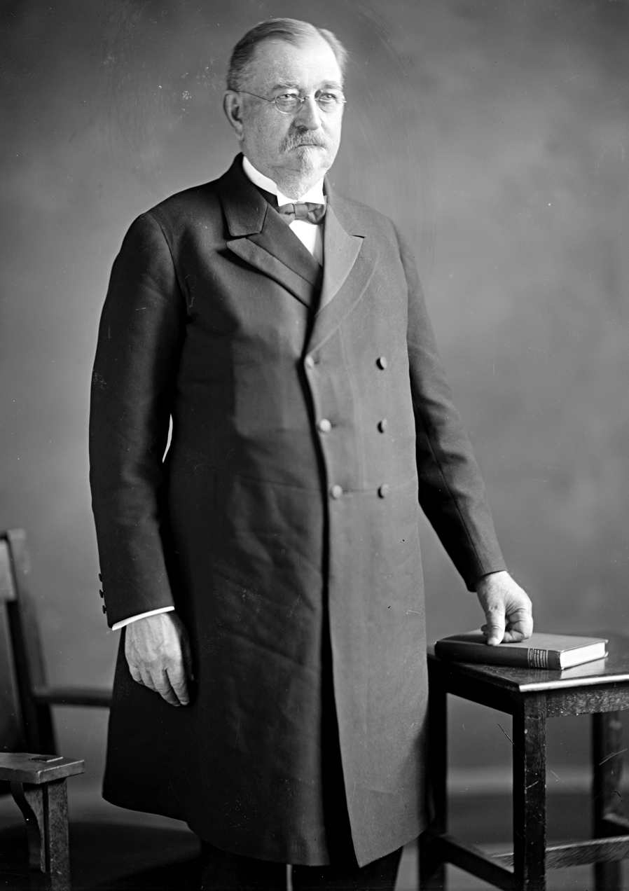 Marcus H. Holcomb, Governor of Connecticut